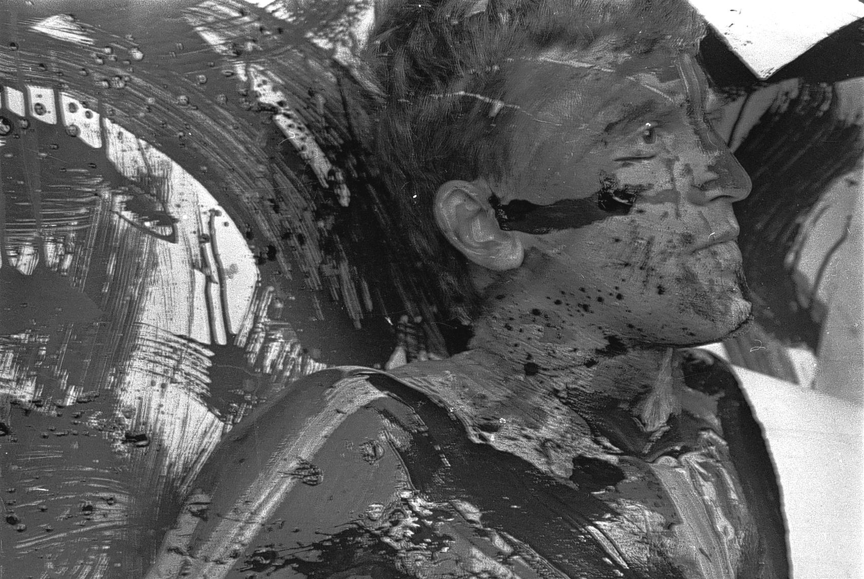 Action painting